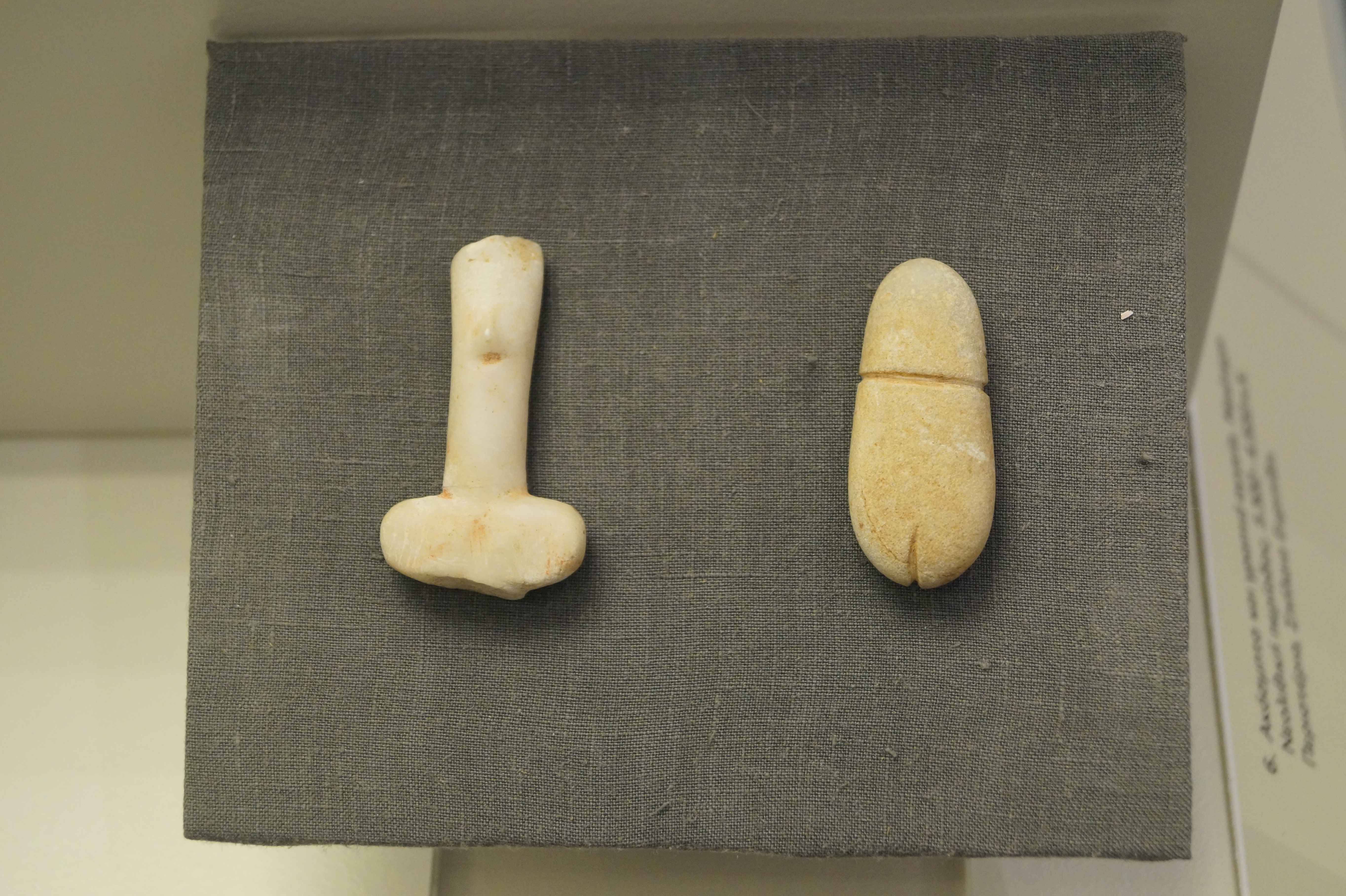 Salamis (City), Salamis, Greece: Archaeological Museum: Part of a late neolithic female marble figurine from the Cave of Euripides (end 5th millenium BC) and a schematic anthropomorphic pebble figurine from Ginani, Citadel A. (4th millenium BC)